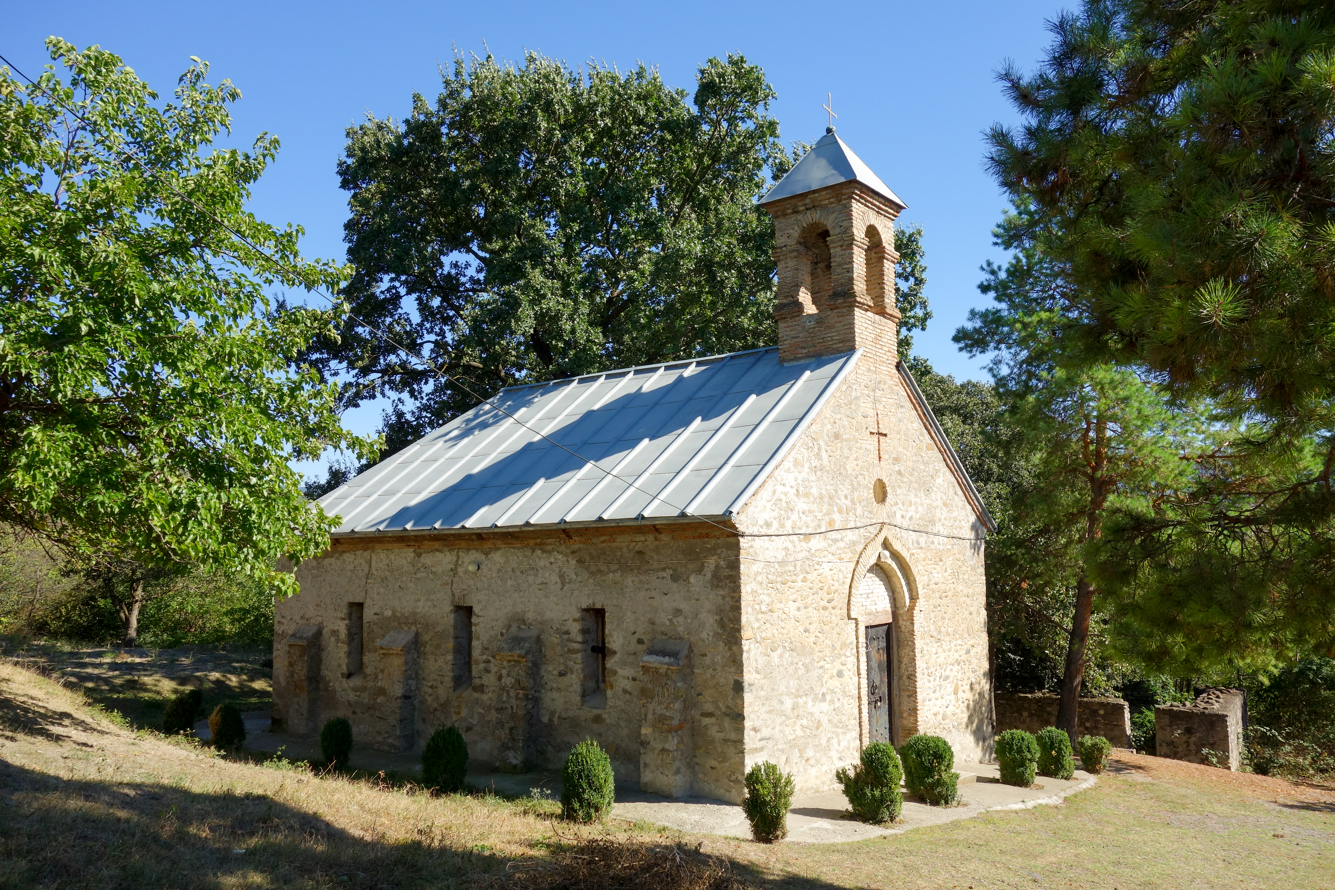 Bitsmendi Church (XIX c.), Bitsmendi, Mtskheta-Mtianeti, Georgia